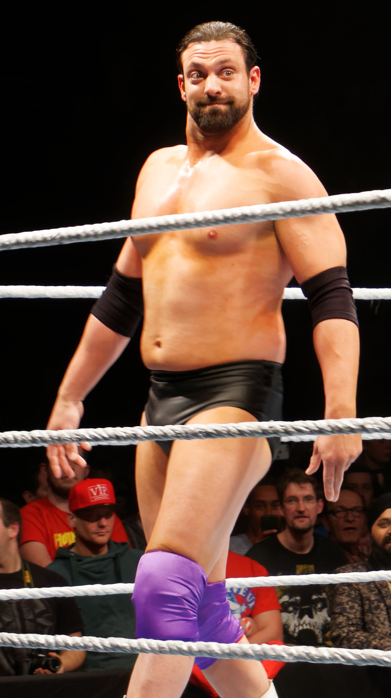 Damien Sandow in April 2016